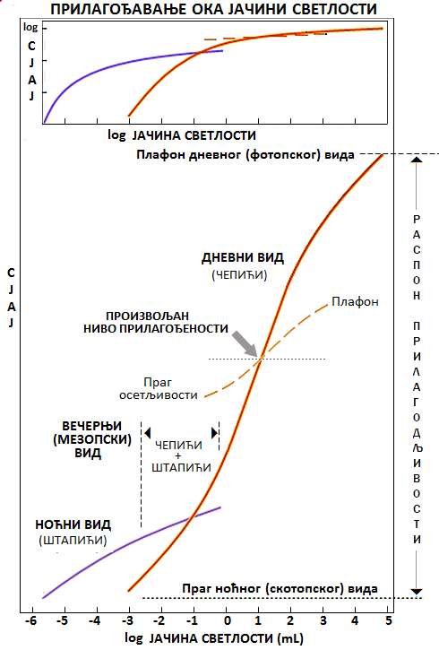 ПРИЛАГОЂАВАЊЕ ОКА ЈАЧИНИ СВЕТЛА